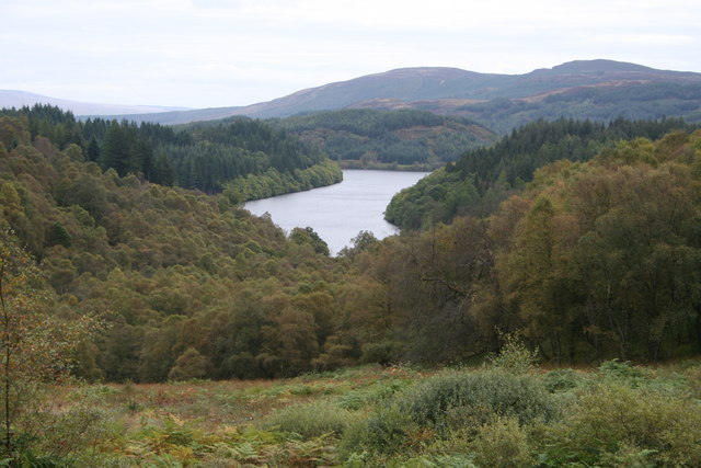 Achray Forest View of part of the Achray Forest (Queen Elizabeth Forest Park) taken from the Duke's Pass looking east towards Loch Drunkie, the Menteith Hills and Beinn Dearg.